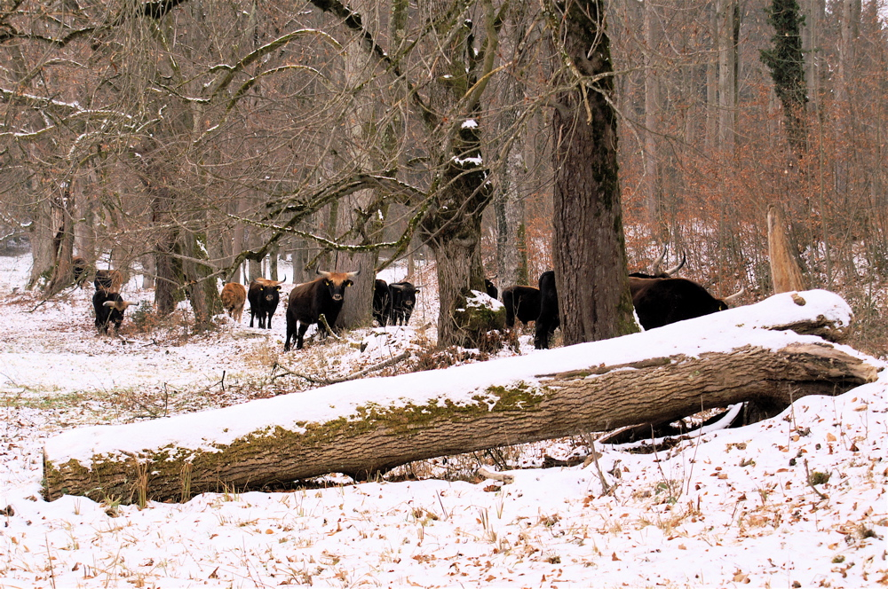 An auroch (heck cattle) group on Island of Wörth, in wintertime